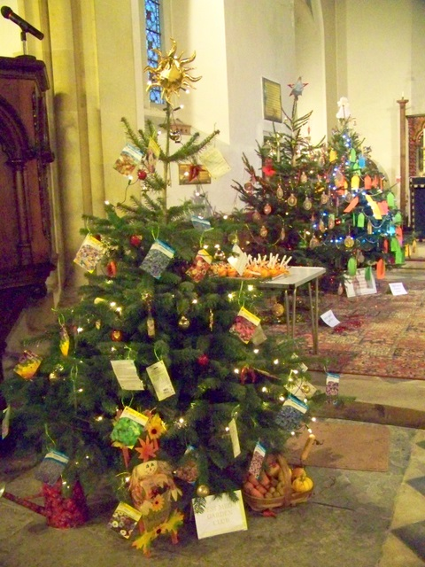 Christmas Tree Festival, St John the Evangelist Church Today we chop down or buy a tree, carry it home, set it up in a stand, decorate it and place our presents underneath it. It wouldn't seem like Christmas without a tree. How did trees become so important in our celebration of Christmas? Trees were originally given as New Year's gifts. And, like other New Year's gifts, trees had symbolic significance. Originally, almond, hawthorn, blackthorn and other trees with bright, small flowers were kept indoors and their blossoms forced, in hopes that they would appear by the New Year. If they did, its was regarded as a good omen for the crops in the coming year. But forcing blossoms was a chancy business, and rather than tempt fate, many turned to evergreen trees, especially those that bore fruit at the New Year. A tree designated as a Christmas tree made its first appearance in the late sixteenth century. It was merely the latest in a long line of mystical or sacred trees that held special significance in popular folklore. In a fragment from a travel diary dated 1605, an unidentified visitor to Strasbourg, Germany describes tree decorations that include apples (from the Tree of Life?), paper roses (from solstice celebrations?), sweets, wafer-like biscuits (to wish for good times in the coming year?) and golden spangles (to wish for riches?). When Queen Victoria married Prince Albert, the Christmas tree became quite central to the holiday in the British Isles. It was a time of Victorian commercialism, and of a growing middle class eager for ways to display their new wealth. The tree provided an opportunity to sell more goods to the public and was vigorously promoted. The tree in the foreground is the exhibit of the West Meon Garden Club.